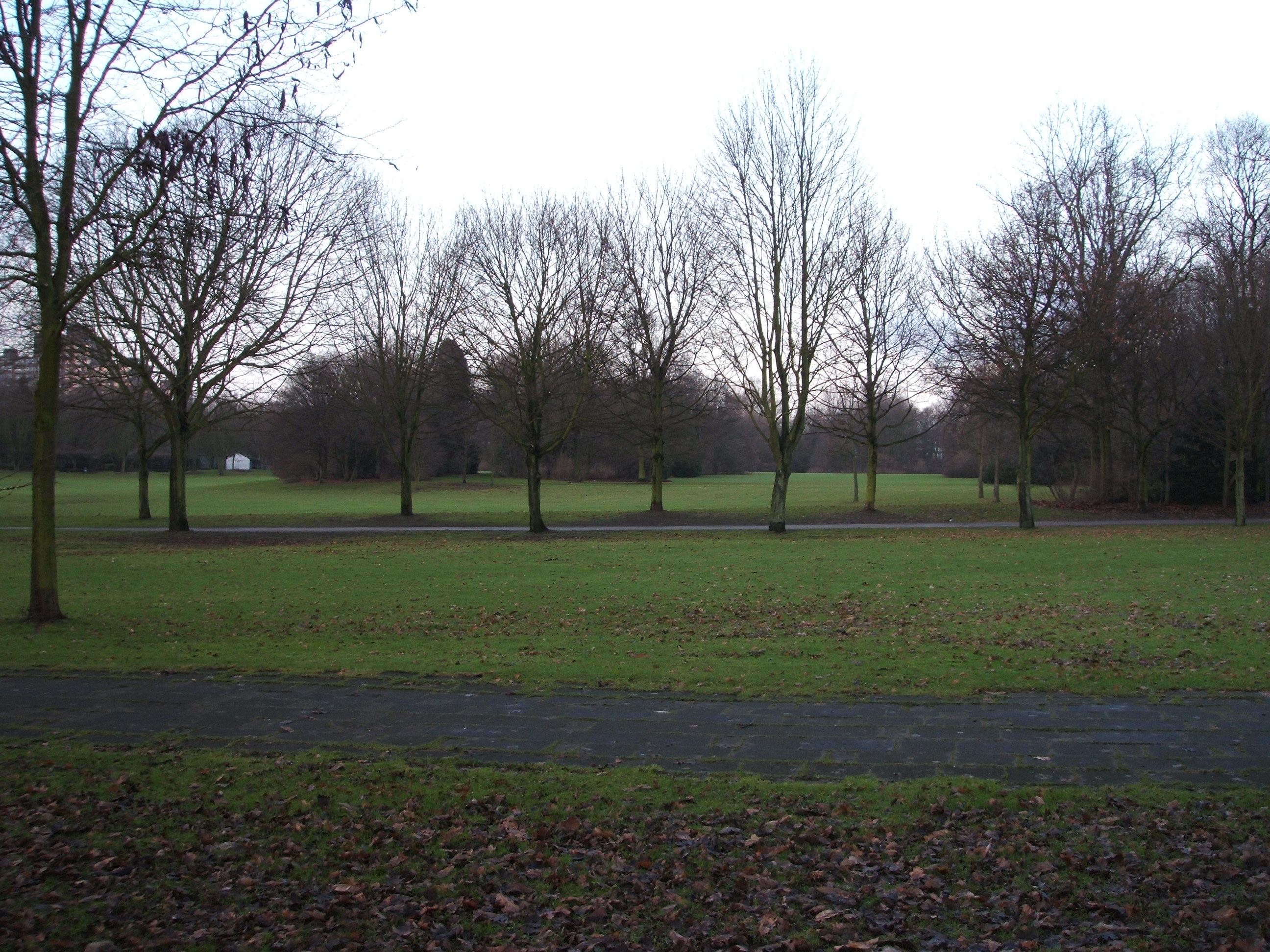 Biegerpark in Duisburg